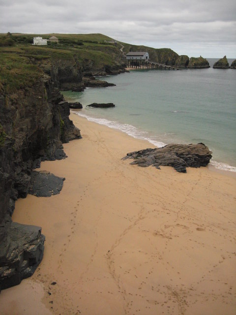 Padstow Lifeboat Station The Padstow Lifeboat Station and Polventen or Mother Ivey's Bay.